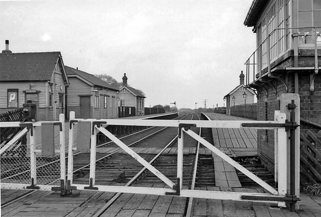 Barlow Station. View NW, towards Selby; Selby - Goole branch, closed to passengers 15/6/64, to Goods 7/12/64. Crossing-gates operated from adjacent signalbox.